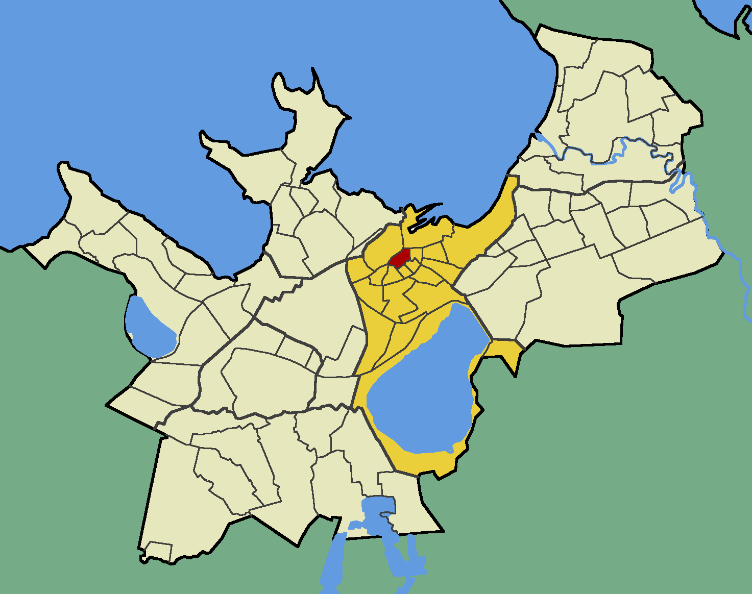 Map of Tallinn (Estonia) with borders of the quarters, Kesklinn district and Südalinn quarter emphasised